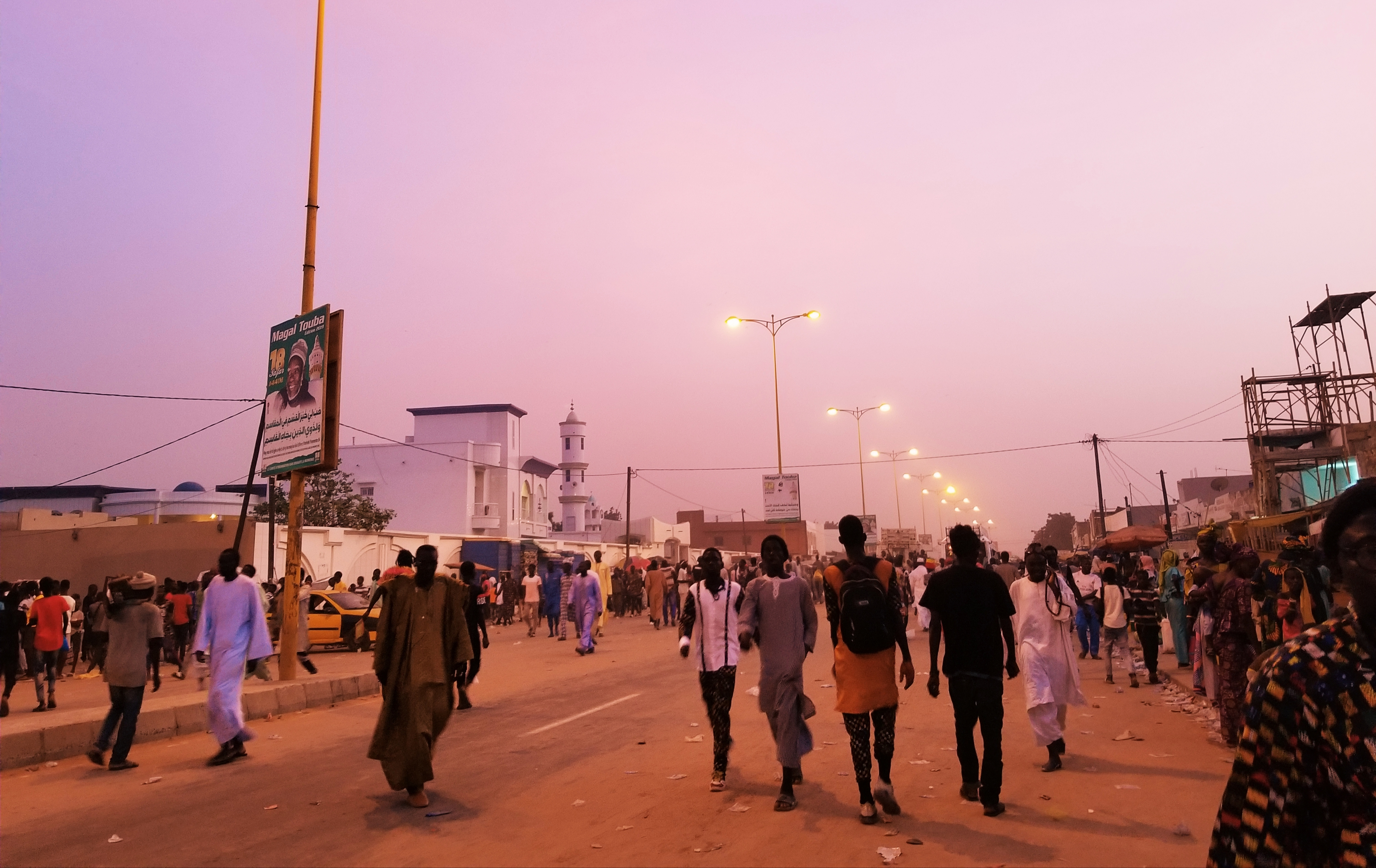 Grand Magal is a very famous pilgrimage, it gathers together over 5 millionuslims each year This is an image with the theme "Africa on the Move or Transport" from: Senegal